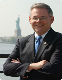 United State Junior Senator from New Jersey, Democrat Robert Menendez, standing in front of the Statue of Liberty.